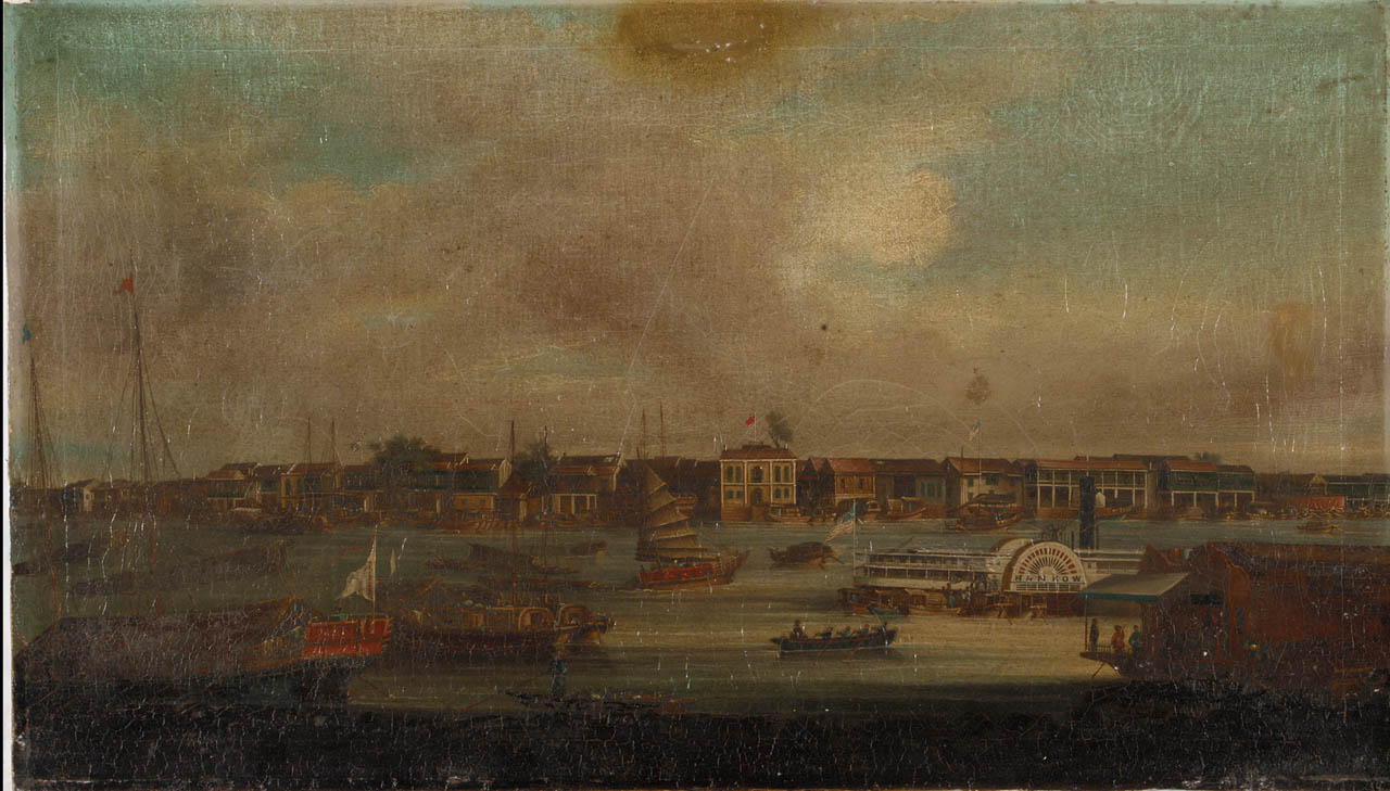 The American steamship Hankow at Hankow Oil painting